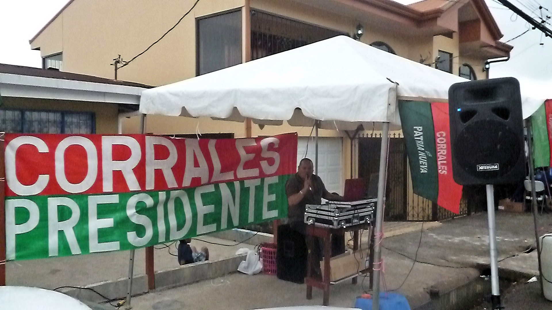 Patria Nueva spot at Quesada during Costa Rican general election, 2014.